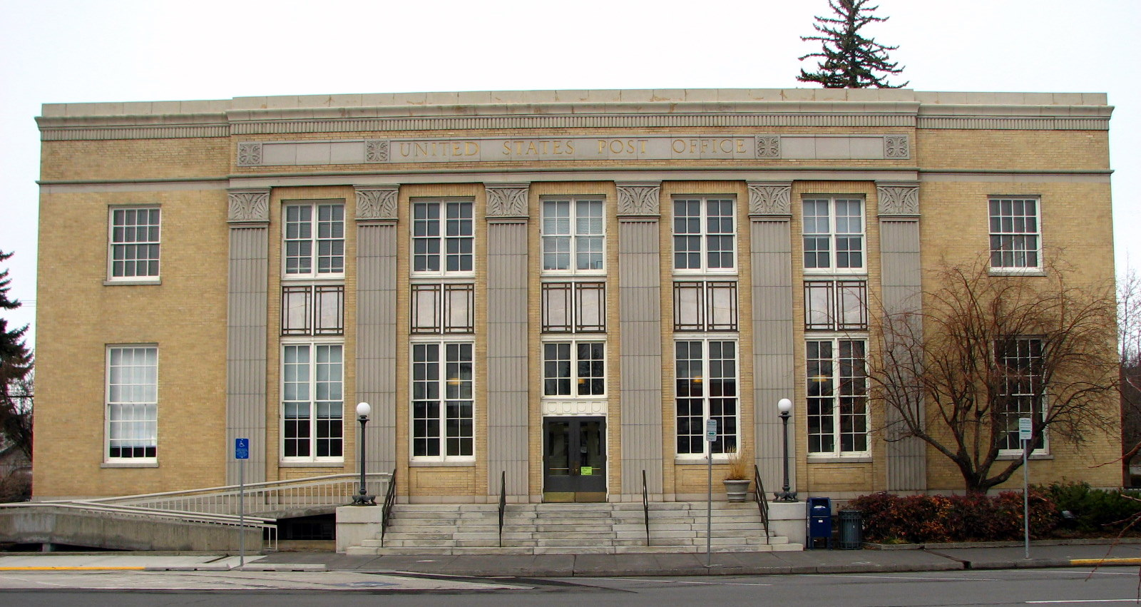 The historic Old U.S. Post Office (built 1932), located at 745 Northwest Wall Street in Bend, Oregon, United States, is listed on the US National Register of Historic Places.